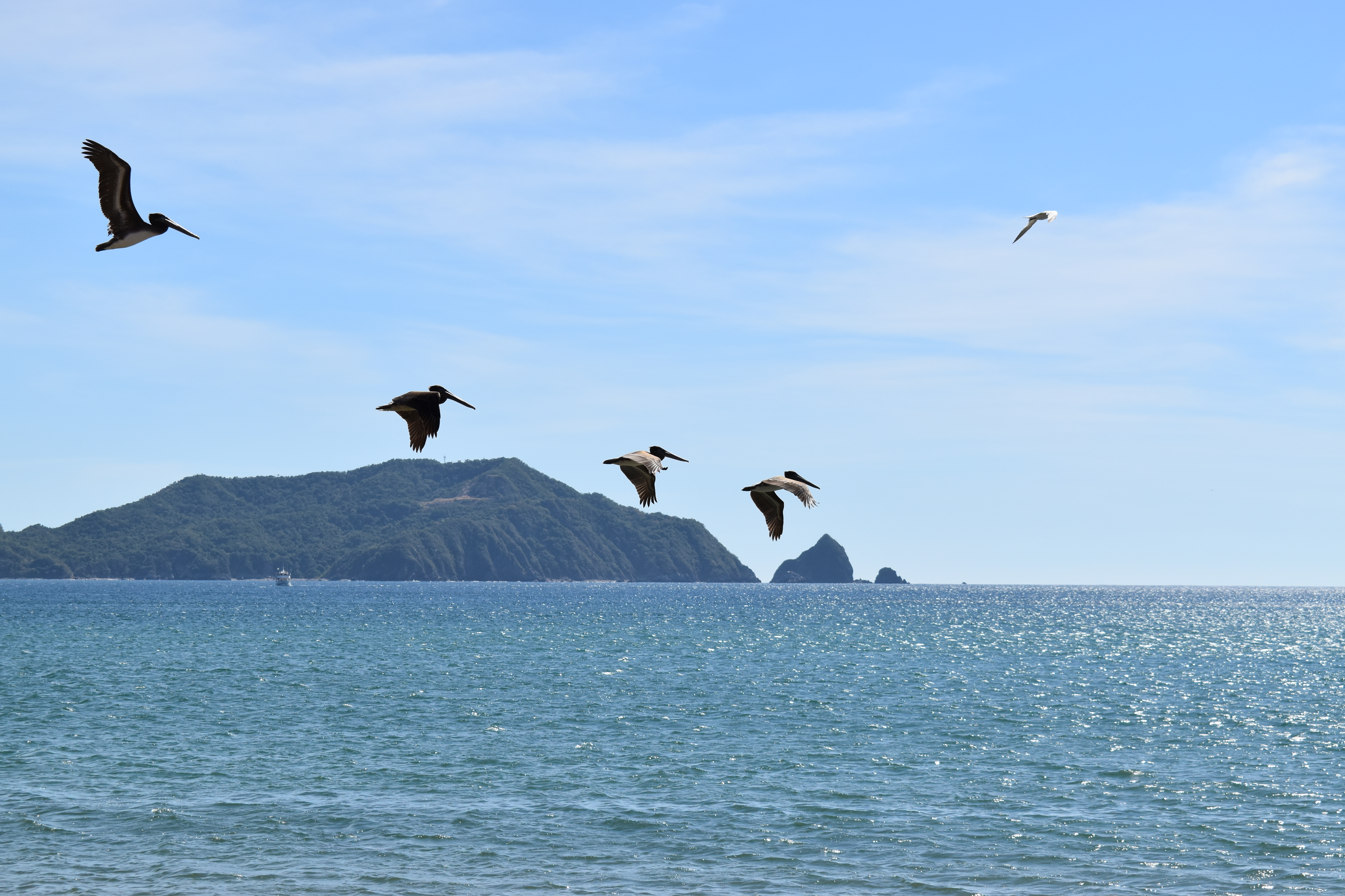 Pelicans overflying the beach on San Patricio - Melaque, municipality of Chihuatlán, Jalisco's State (México)